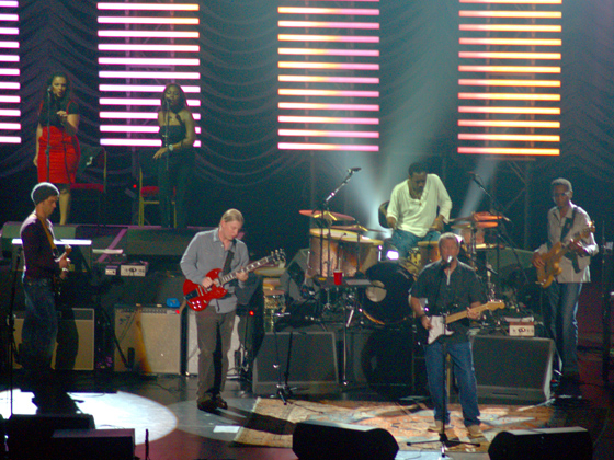 Eric Clapton Rod Laver Arena, Melbourne, February 2007 See the full gallery